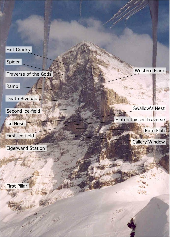 The features of the north face of the Eiger in Switzerland. The features are from a diagram in The White Spider by Heinrich Harrer.